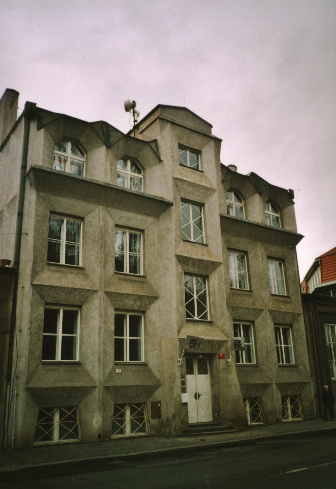 Cubism - Kovarovic Villa (1912-13), street elevation, Prague, Czech Republic